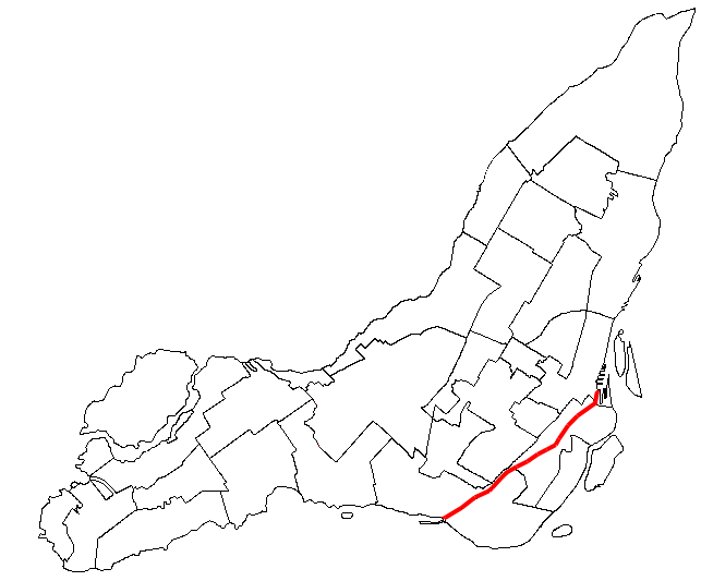 Lachine canal, island of Montreal Adapted from Image:Lachine.png